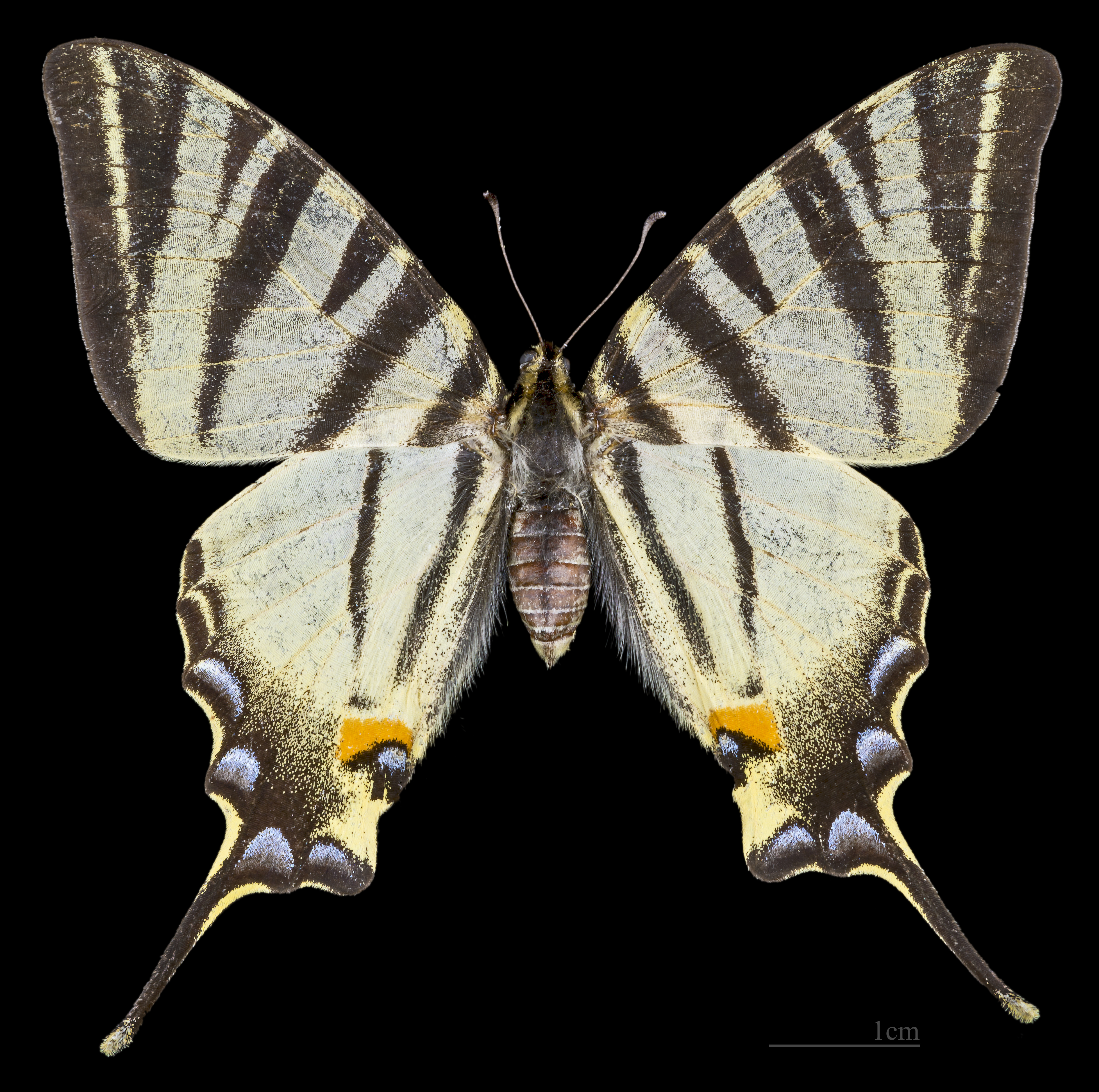 Scarce Swallowtail. Dorsal side.